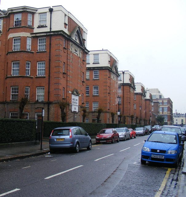 Samuel Lewis Trust Buildings Ixworth Place Pictured toward Sloane Avenue